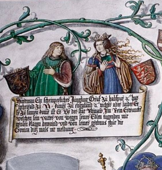 Joan of Acre, Daughter of Edward I Longshanks, with her betrothed Hartman of Germany, Son of Rudolph I of Germany. He died before the marriage could take place.